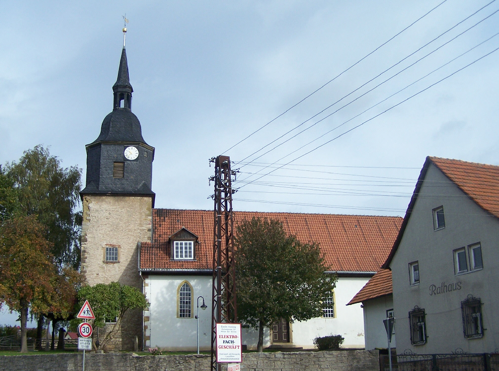 The church Saint Peter and Paul in Grossenlupnitz.